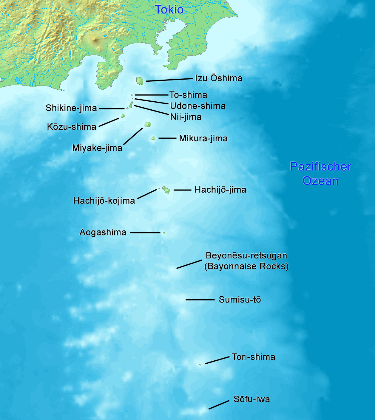 Map of Izu Islands, Japan, German version.